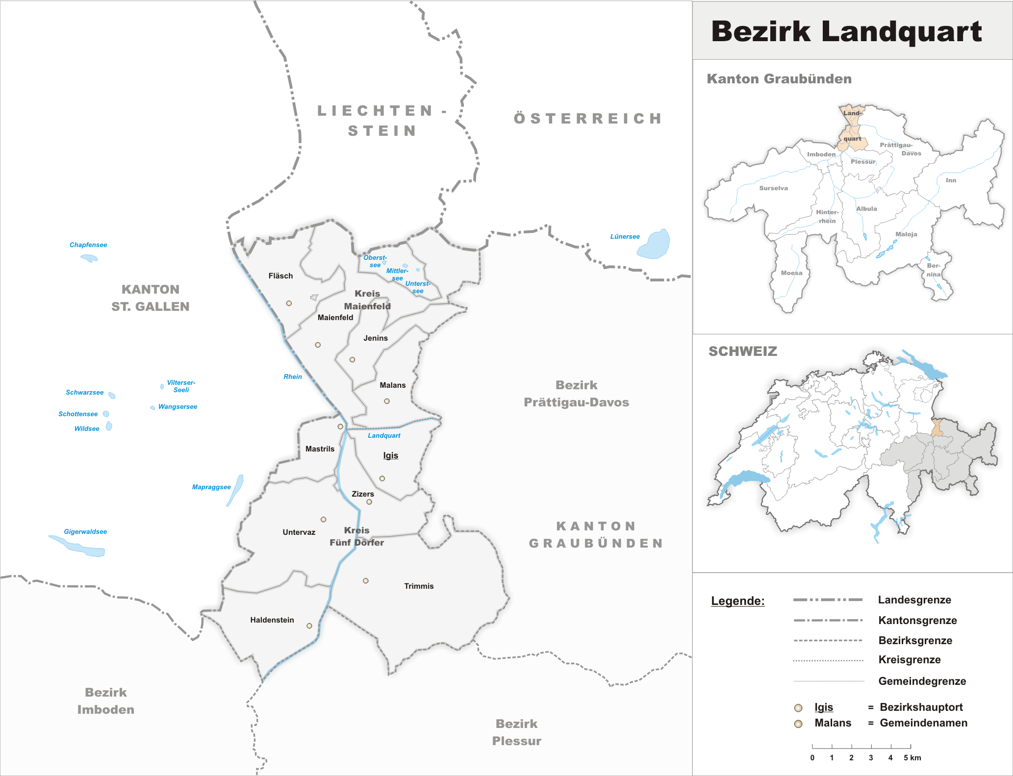 Municipalities in the district of Landquart to 2009